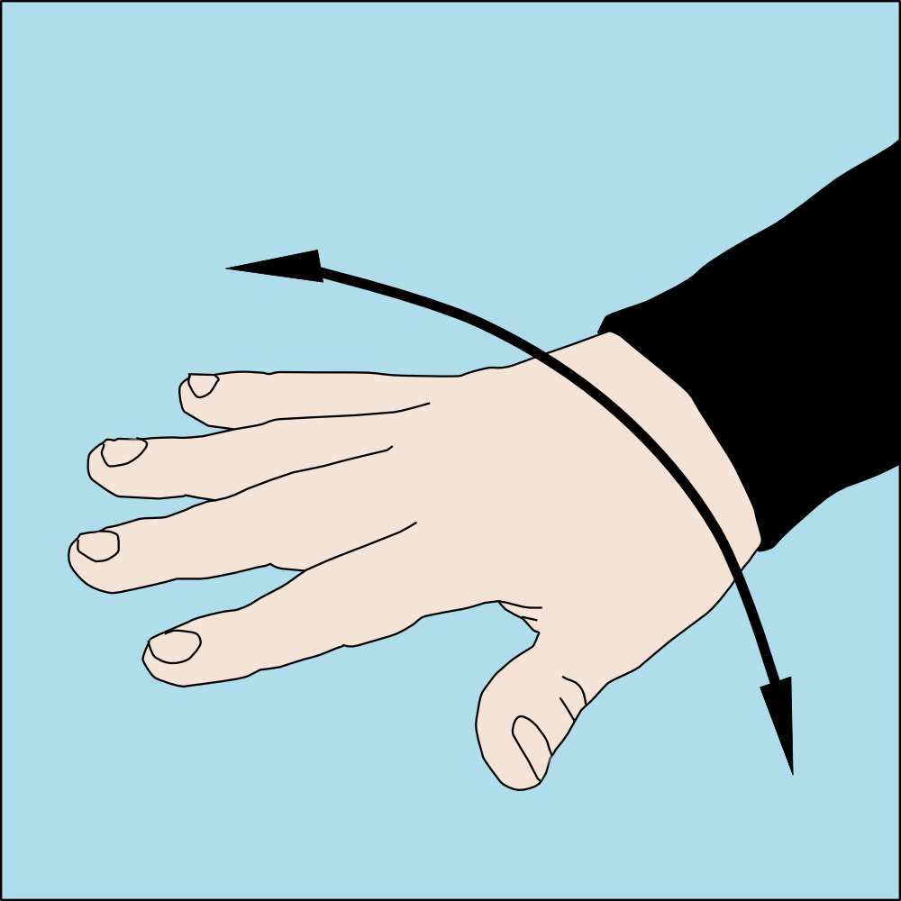 RSTC standard hand signal for scuba diving - Something is not right